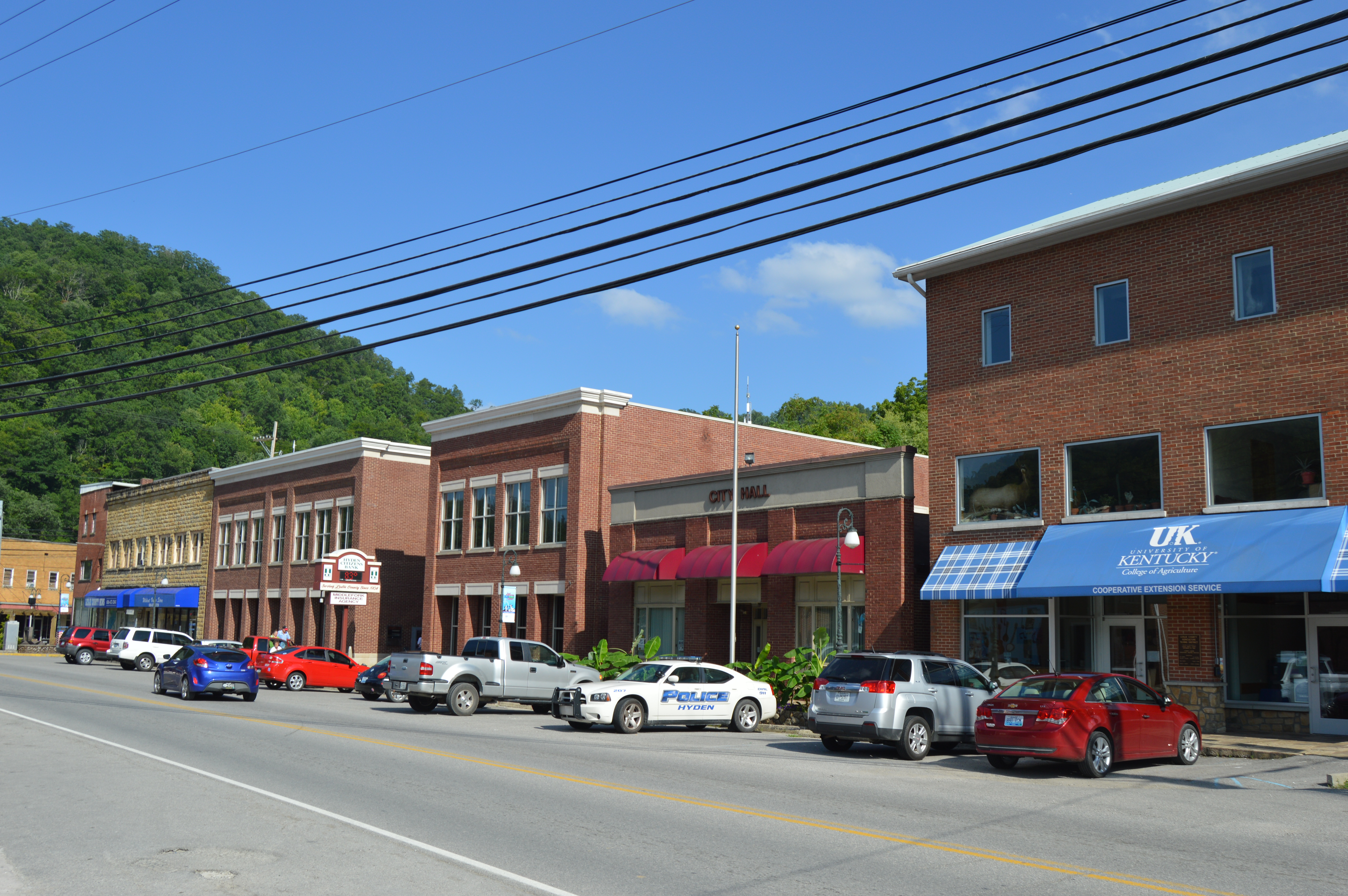 Businesses on the southern side of 22065 Main Street (U.S. Route 421/Kentucky Route 80) in downtown Hyden, Kentucky, United States.